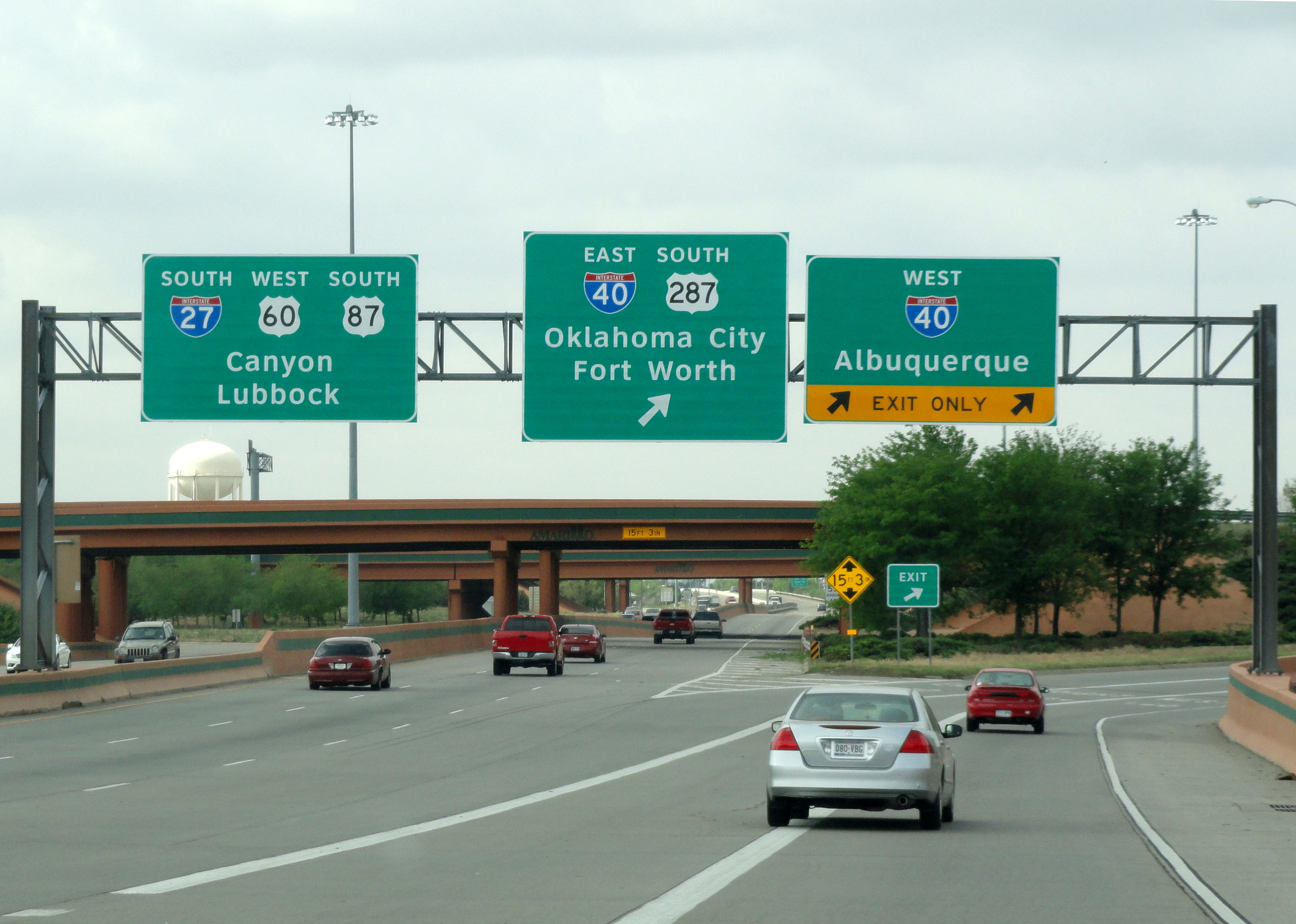 Approaching the northern terminus of Interstate 27 at Interstate 40 south of downtown Amarillo, Texas.